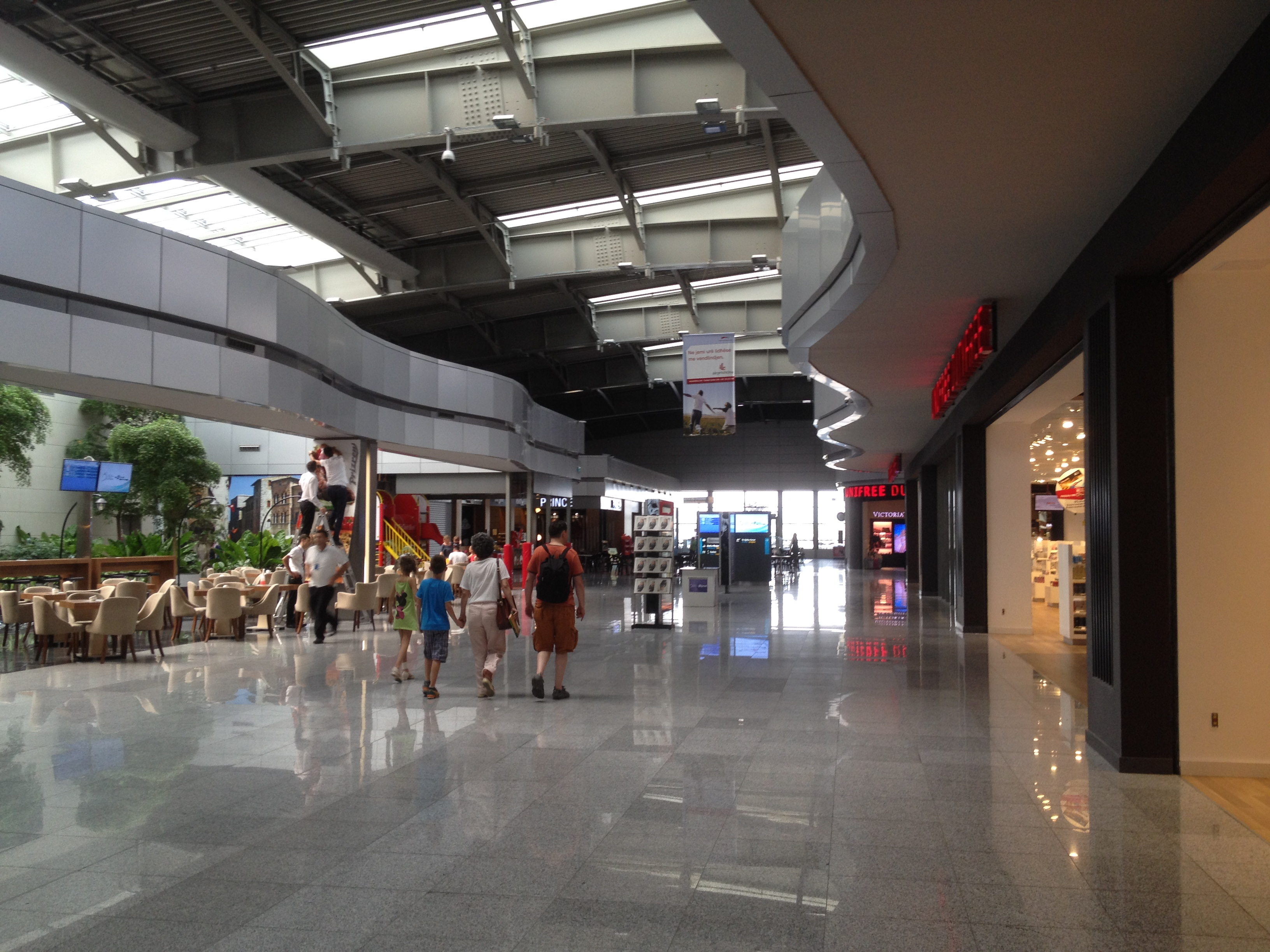 Shops at the Prishtina International Airport Adem Jashari.